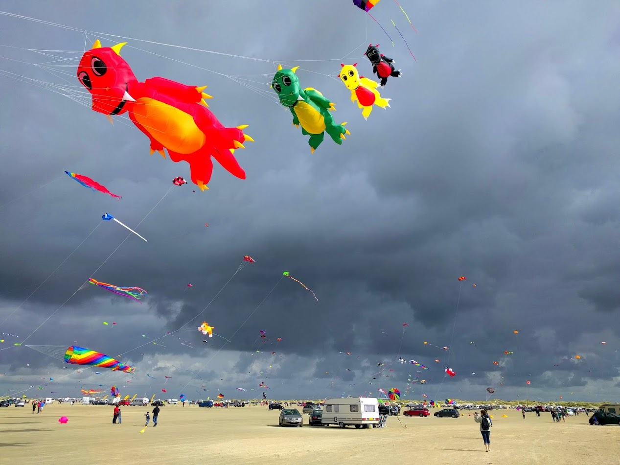 Colorful kites against dark clouds above a sandy beach on Rømø island in southern Denmark